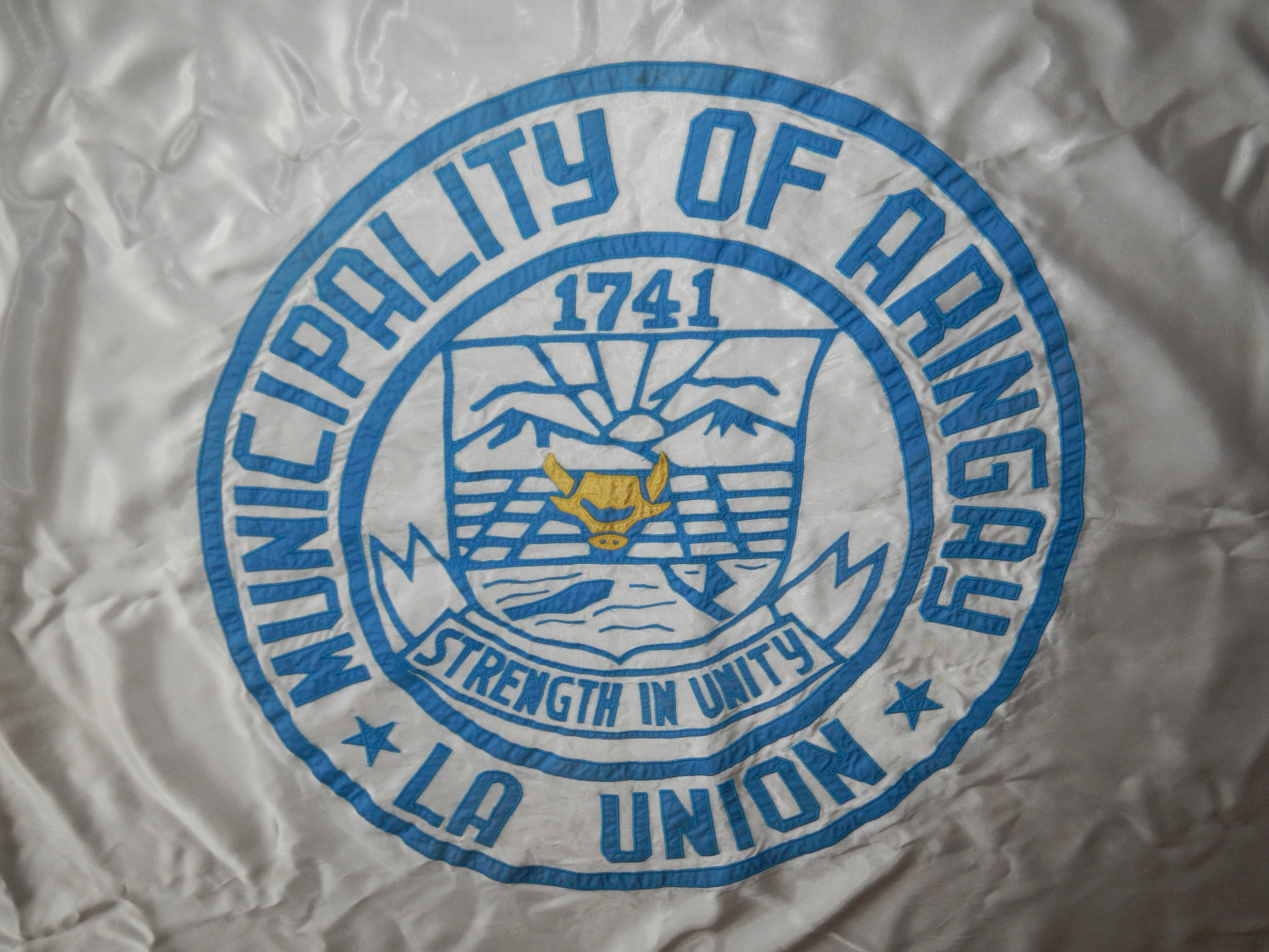 Photos of Town Proper of Aringay, La Union: including the Saint Lucy Parish Church (Aringay, La Union) Roman Catholic Diocese of San Fernando de La UnionPoblacion [1] (Vicariate of St. Francis Xavier Vicar Forane: Father Raul S. Panay Aringay F-1741 2503 La Union, Philippines Titular: St. Lucy, Dec. 13 Parish Administrator: Father Romeo G. Lopez) in Town Proper of Aringay, La Union La Union Notre Dame Institute beside the Notre Dame High School, Town Hall and Municipal Auditorium and Town Plaza.[2], prominent are the Giant ageless historic Acacia trees surrounding the Town Proper.